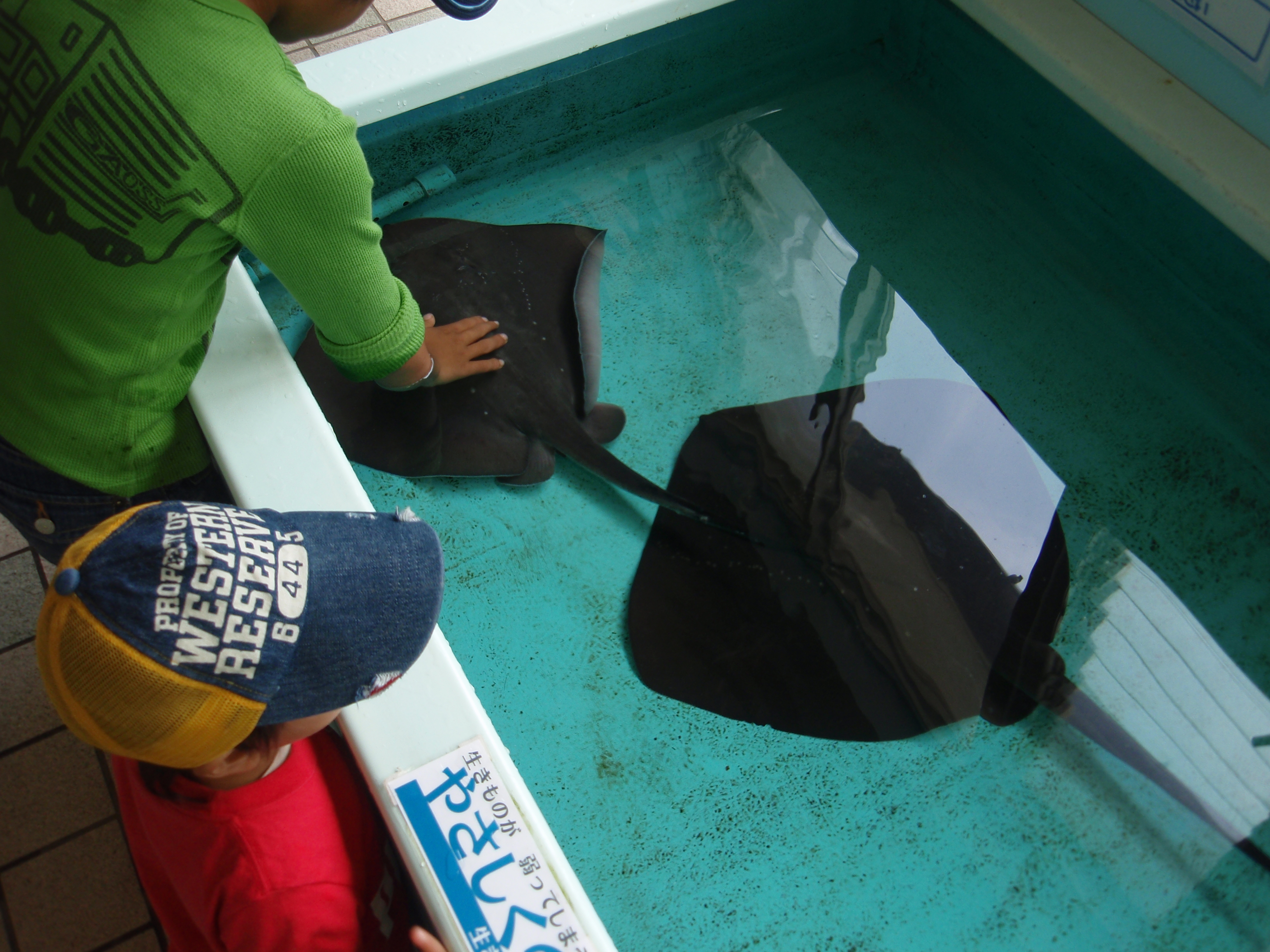 Stingrays in Echizen Matsushima Aquarium, Japan